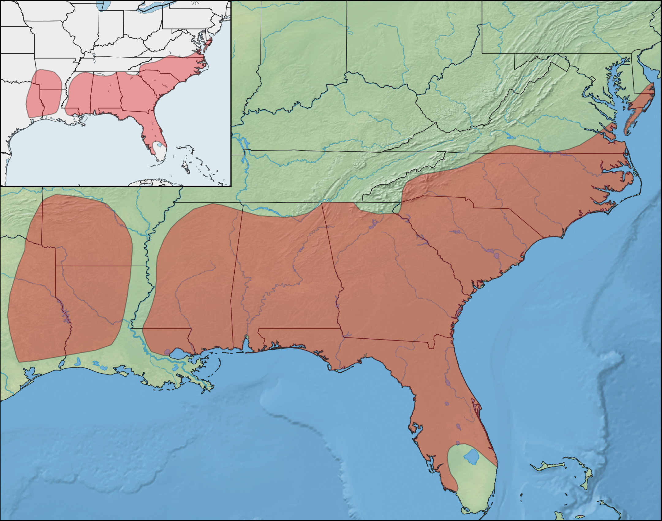 Geographic range of Sitta pusilla